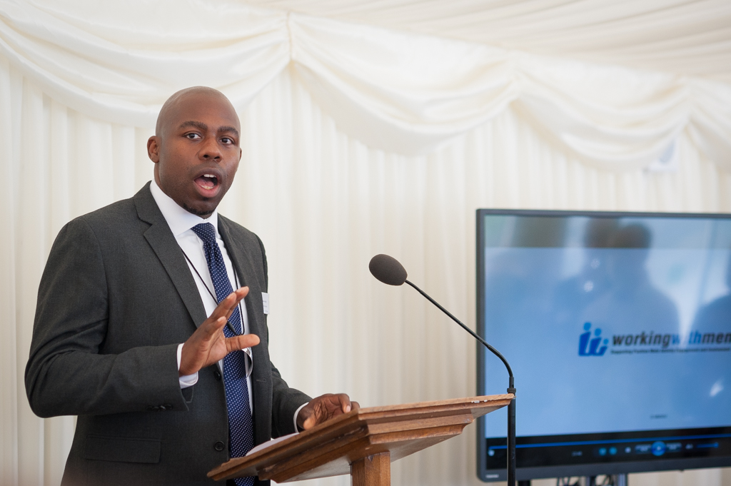 Depicted person: Shane Ryan – British activist